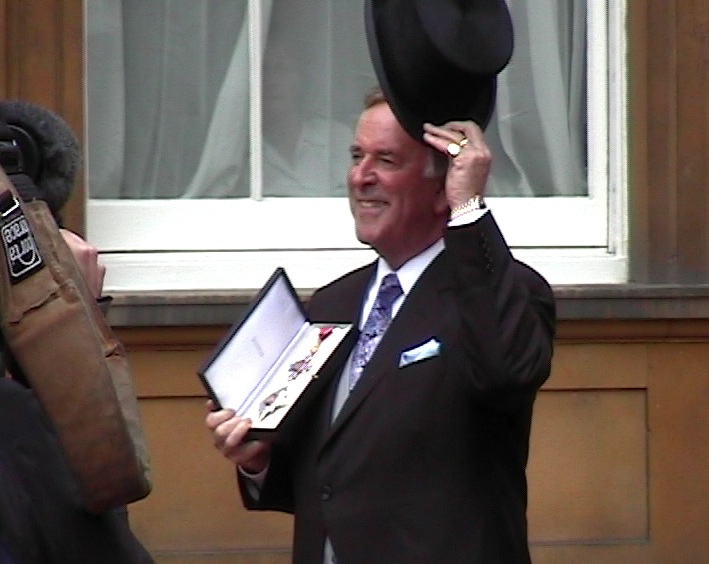 Terry Wogan receiving his knighthood at an Investiture on 2005-12-06.